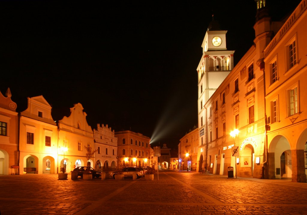 Masaryk square, Třeboň, Czech Republic